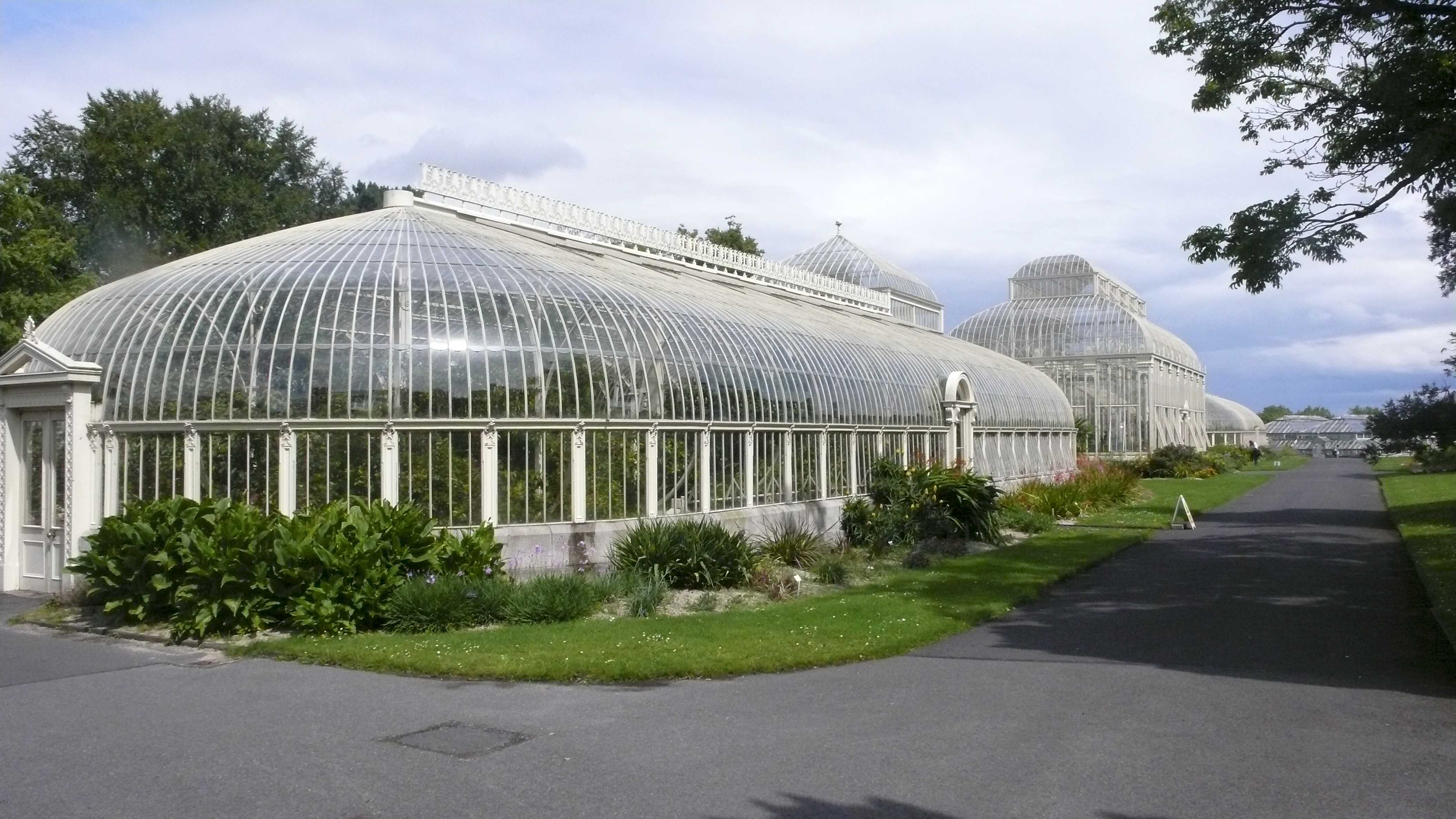 Botanic Gardens in Glasnevin